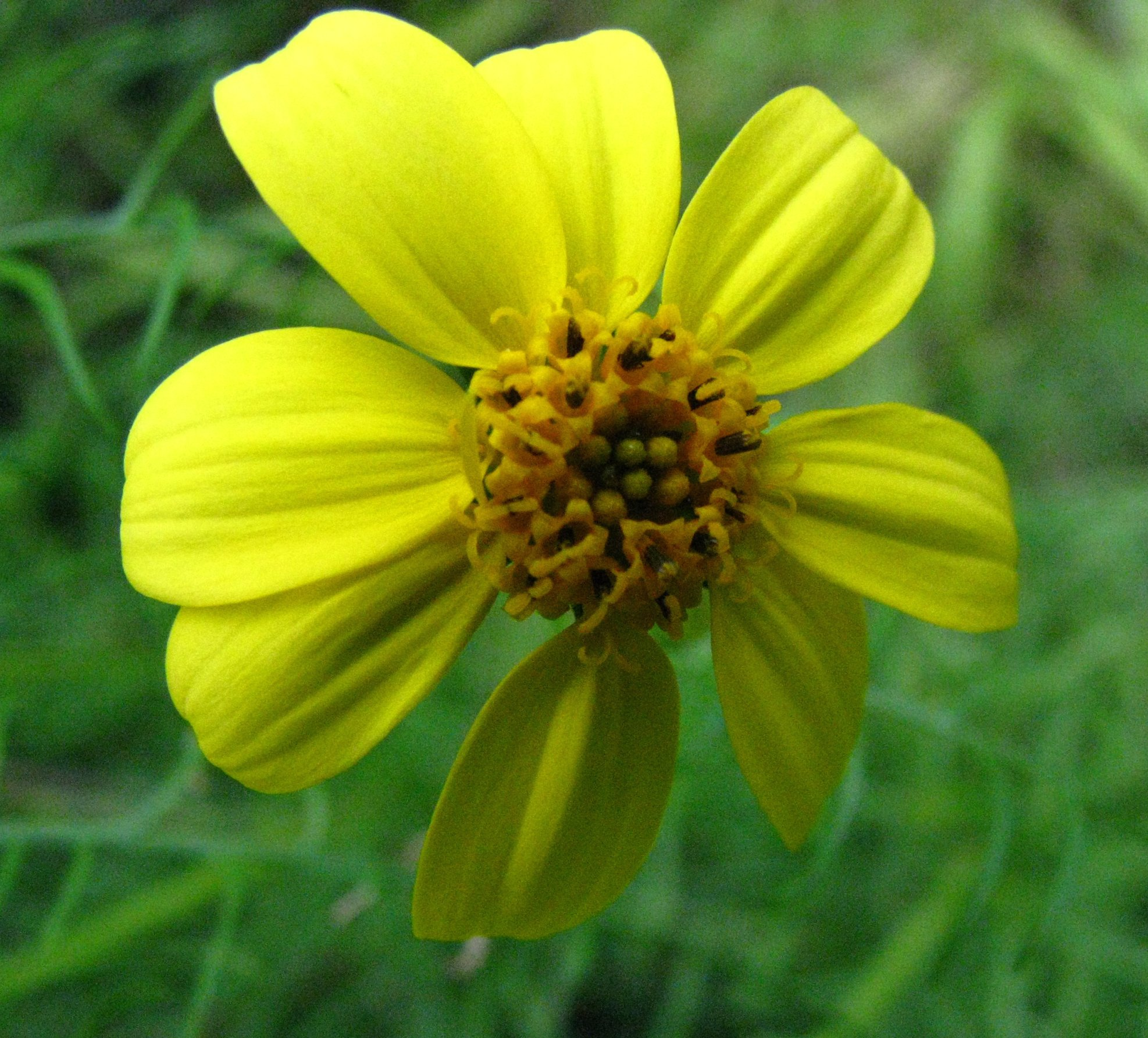 Nehe Asteraceae Endemic to the Hawaiian Islands Oʻahu (Cultivated) NPH00002